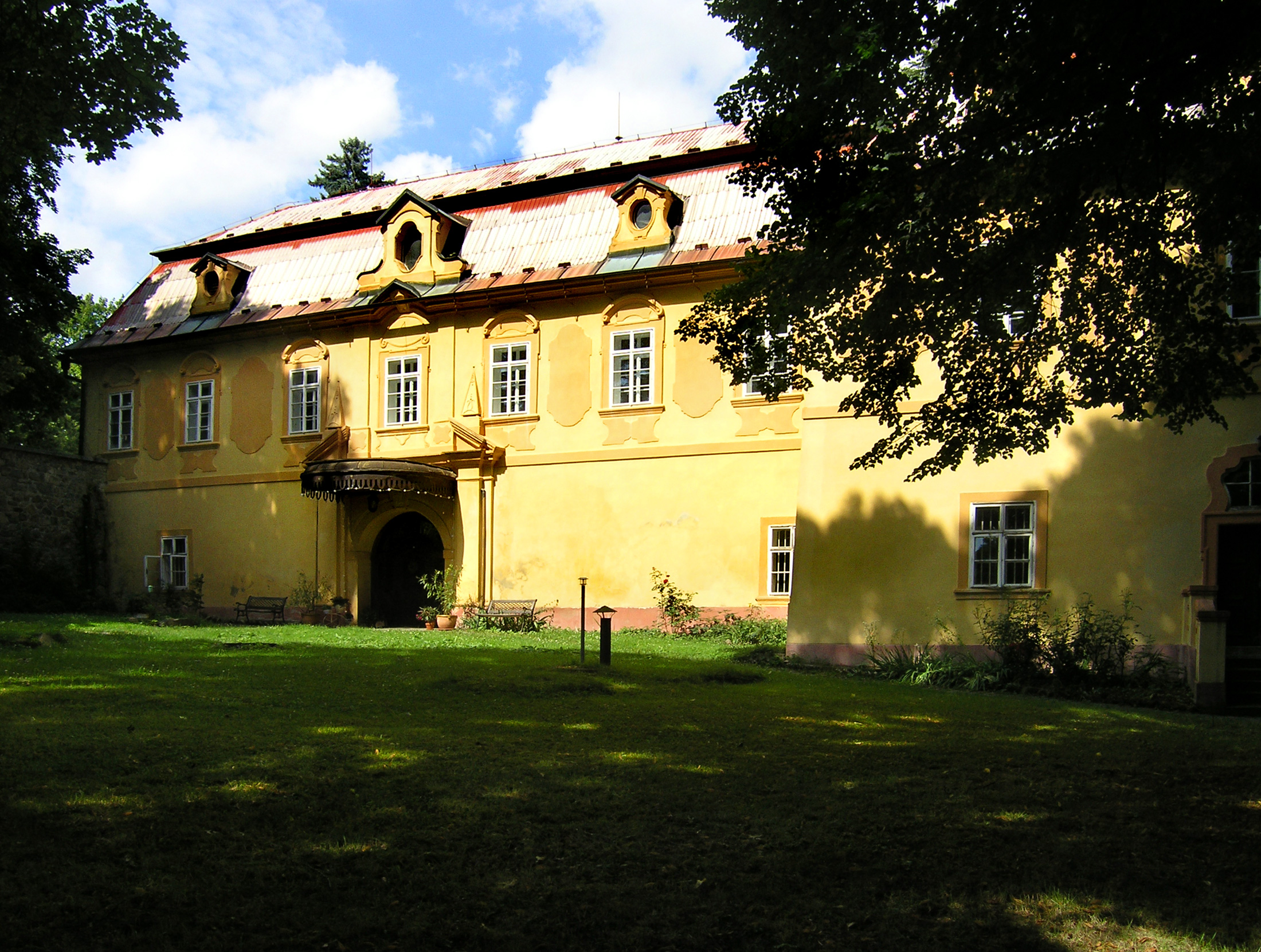 Baroque castle in Lojovice, part of Velké Popovice, Czech Republic.